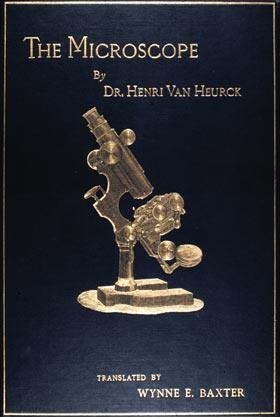 Book published in 1893